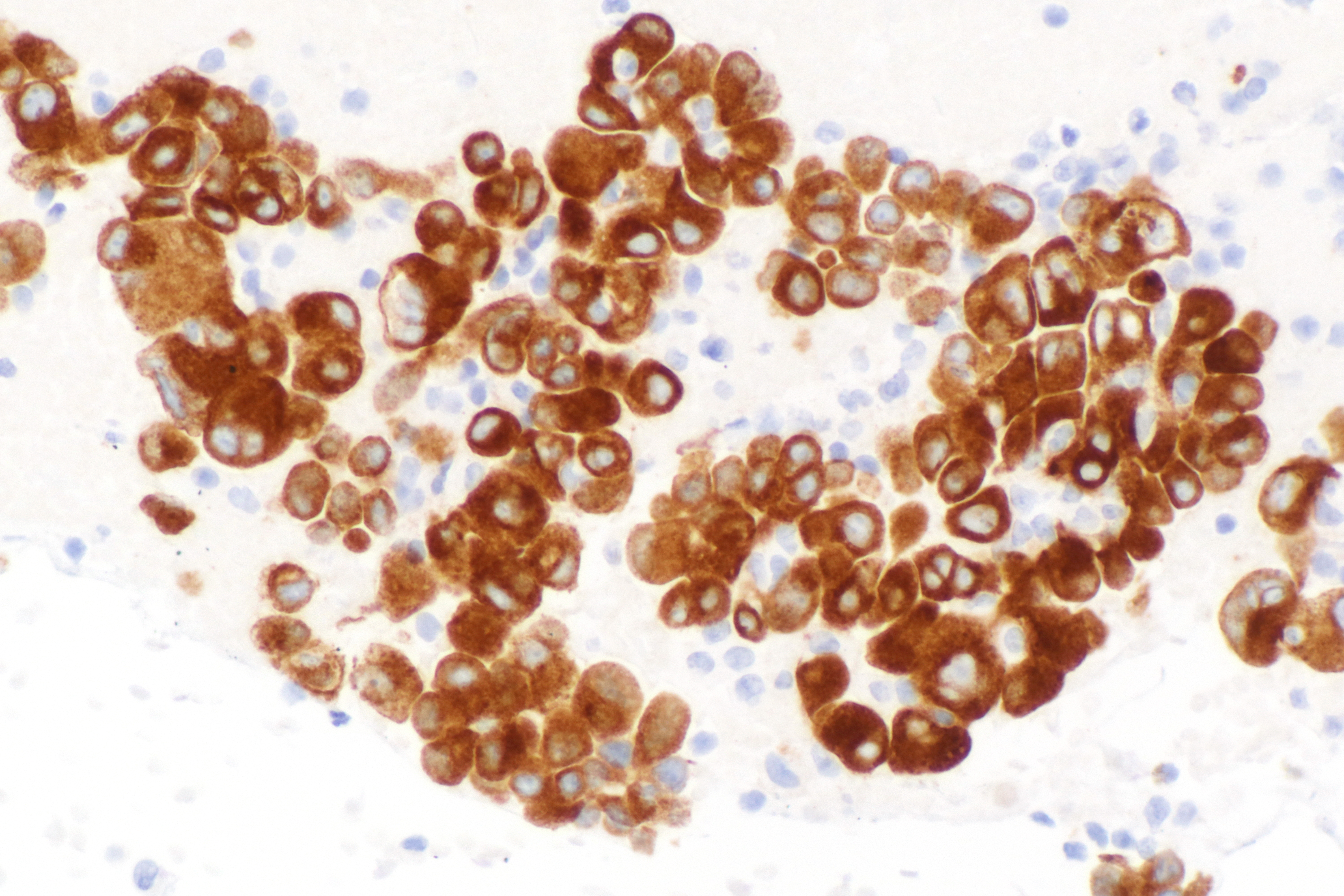 Micrograph showing a ROS1 positive adenocarcinoma of the lung. H&E stain/ROS1/TTF-1/napsin A. Related images